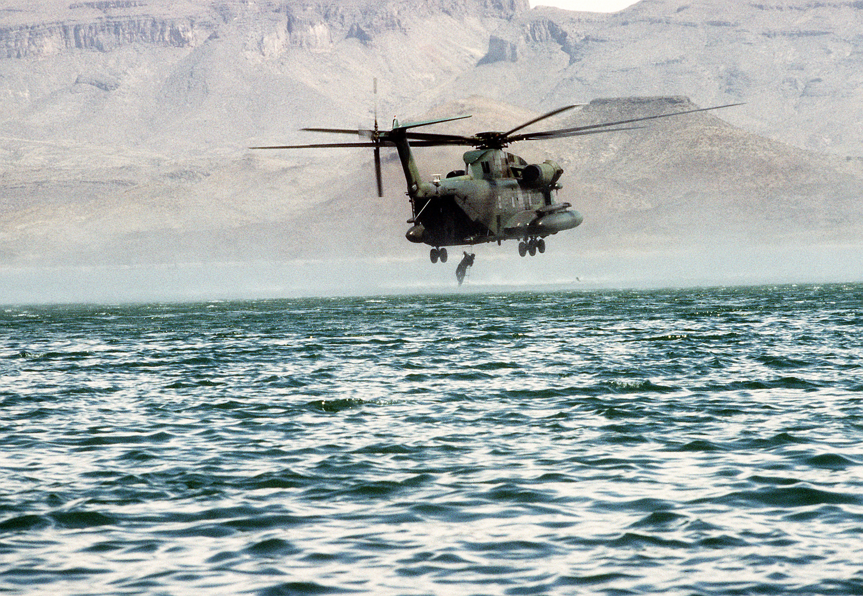 An MH-53J Pave Low III helicopter from the 1550th Combat Crew Training Wing hovers over Elephant Butte Lake as a member of a Navy Sea-Air-Land (SEAL) team climbs aboard during the joint Air Force/Navy special operations Exercise Chili Flag '90.